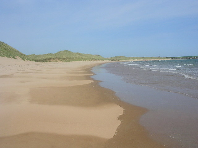 Cruden Bay beach.